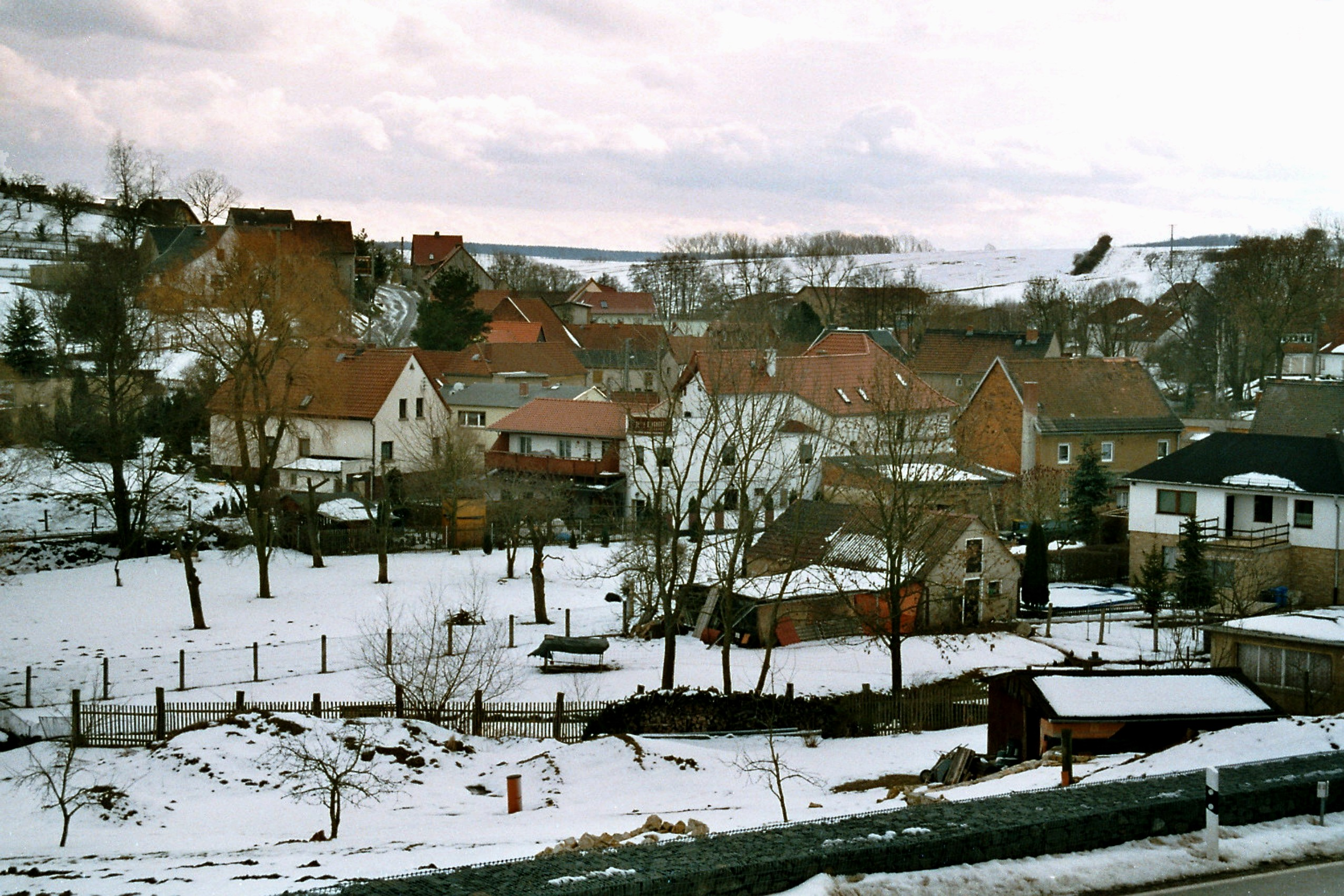 View from the church to the village Petersberg